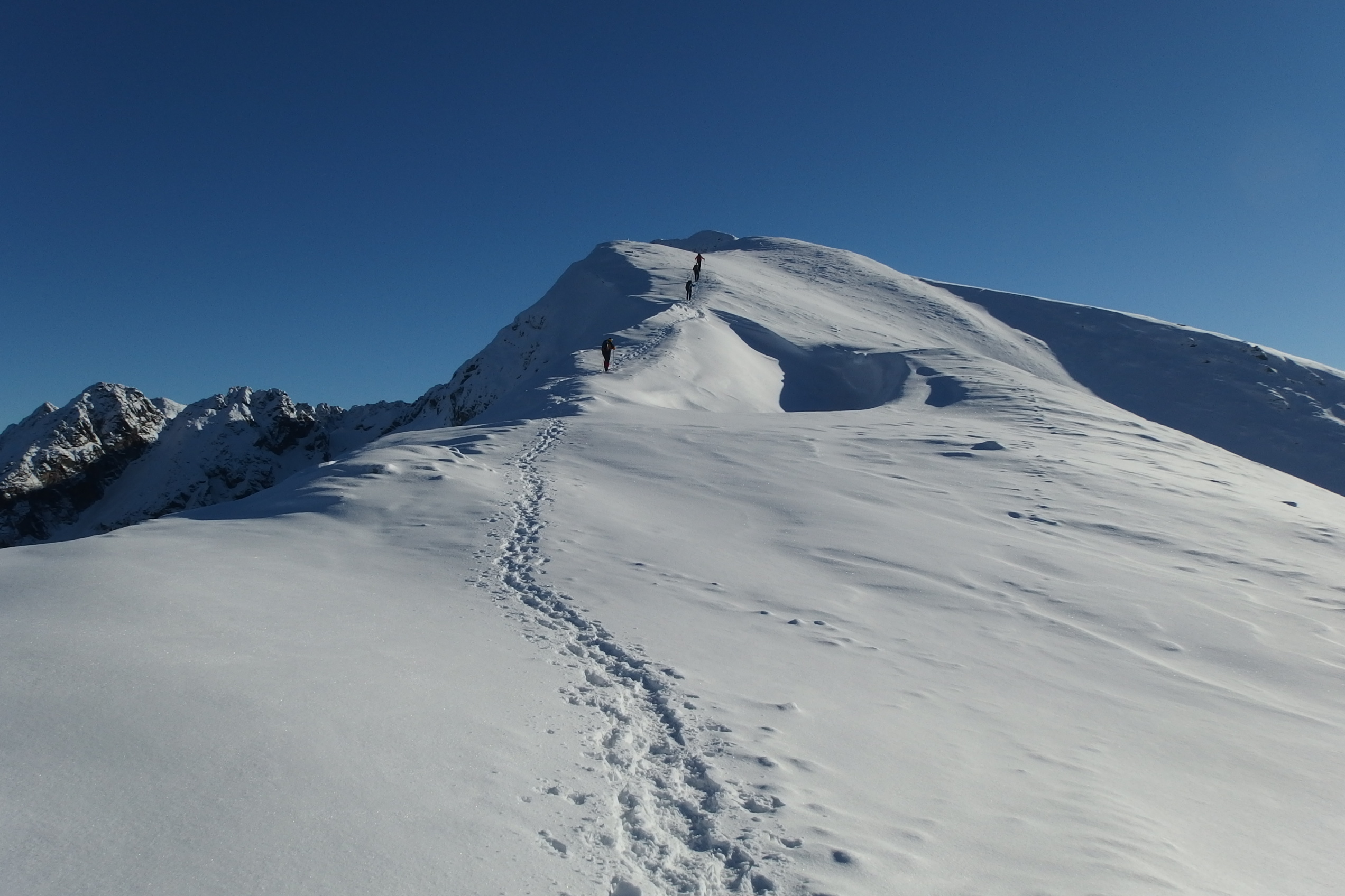 Red trail from Liliowe to Świnicka Przełęcz